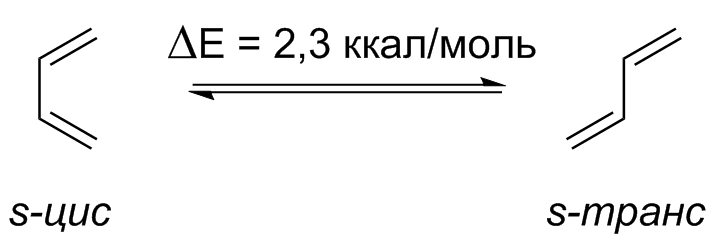 s-cis-s-trans conformations